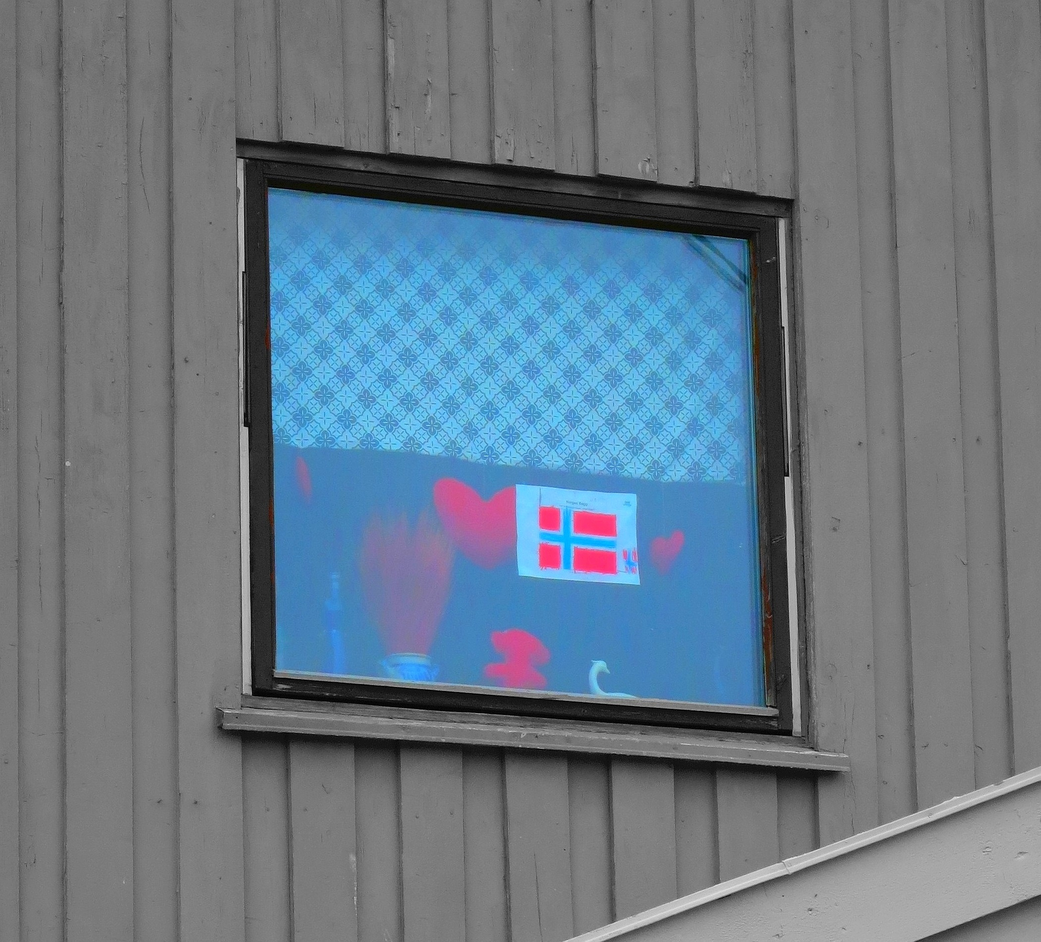 Patriotic home window in Vadsø (Finnmark county, Norway)